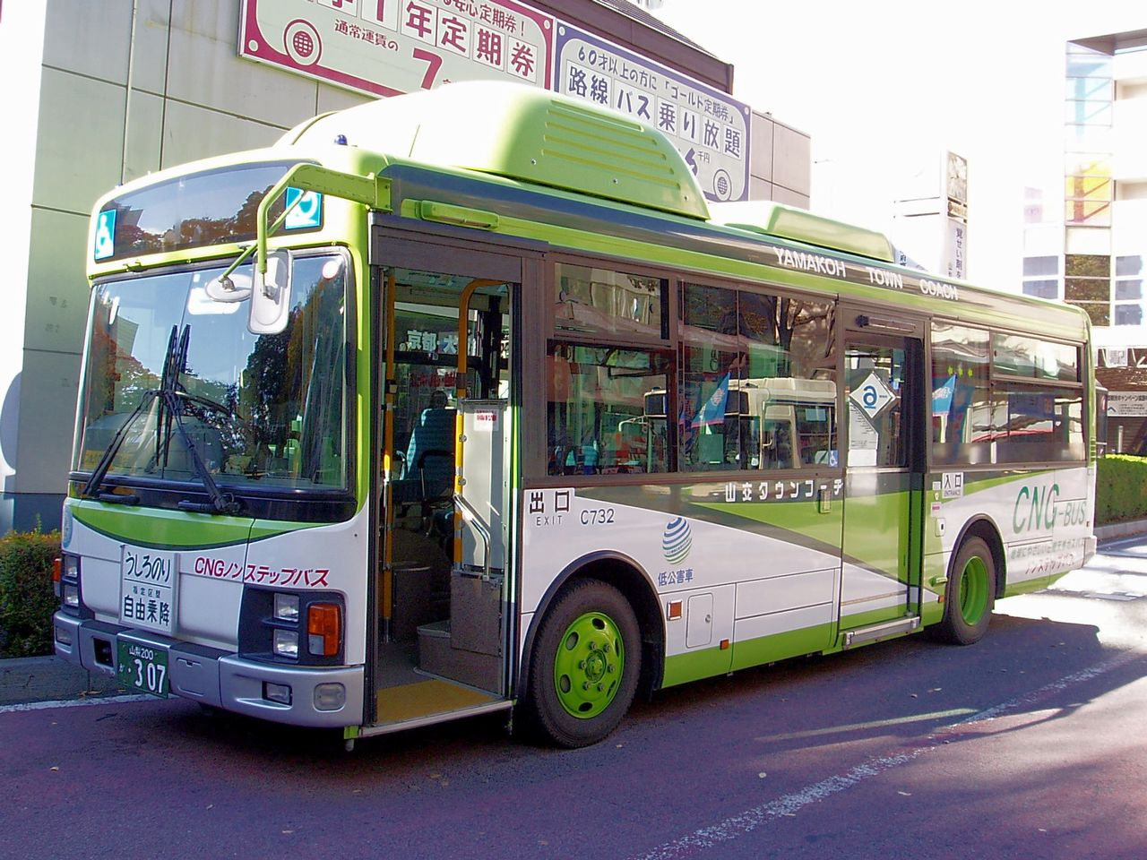 Yamakoh Town Coach "CNG Non-step Bus" Isuzu PA-LR234J1 2007.11.13 Photo by Cassiopeia_sweet.